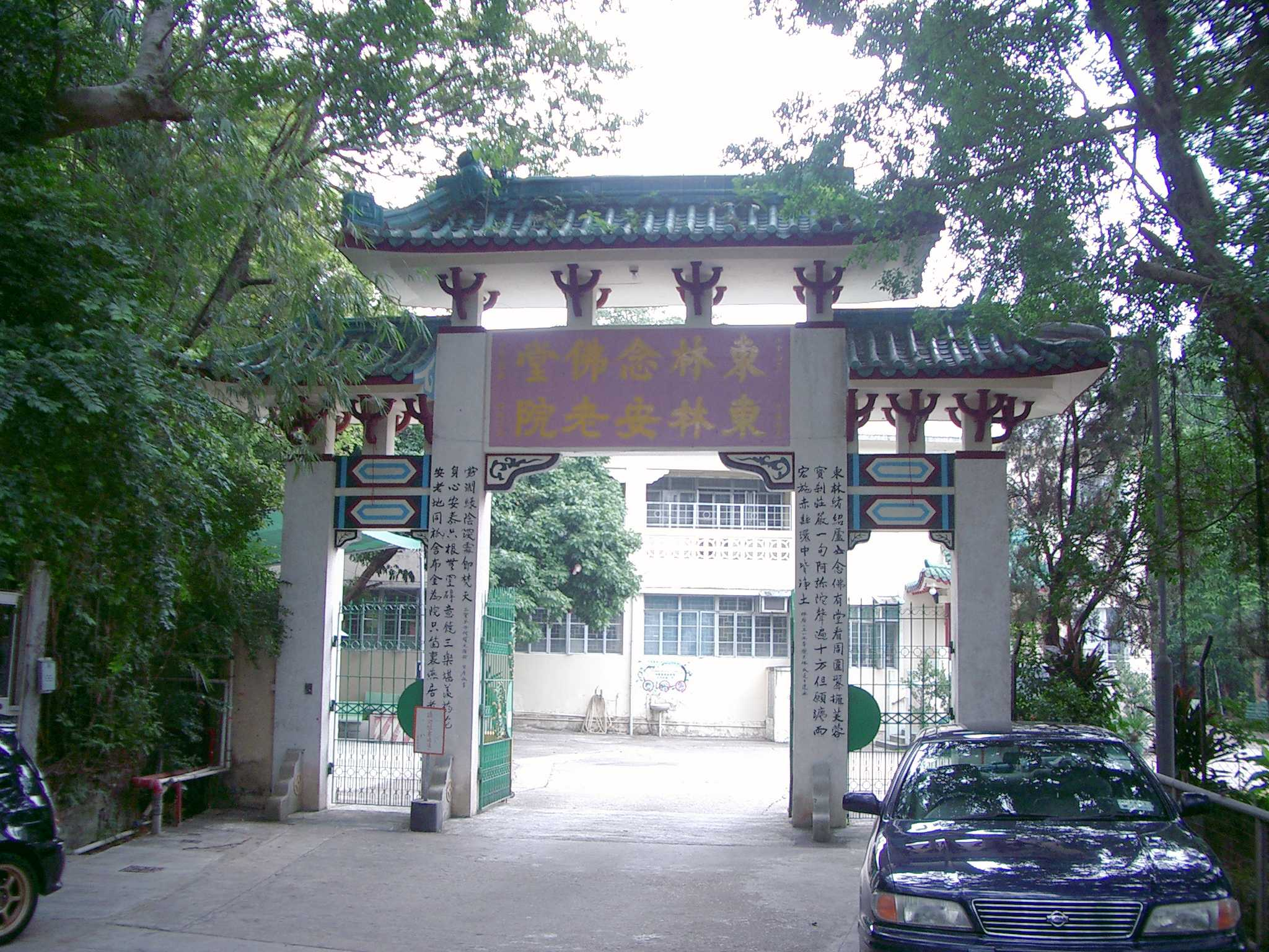 Tung Lum Buddhist Aged Home of Tung Lum Nieh Fah Tong Fu Yung Shan Tsuen Wan Hong Kong